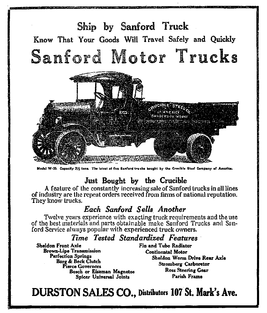 Sanford Motor Truck Company - Advertisement 1919